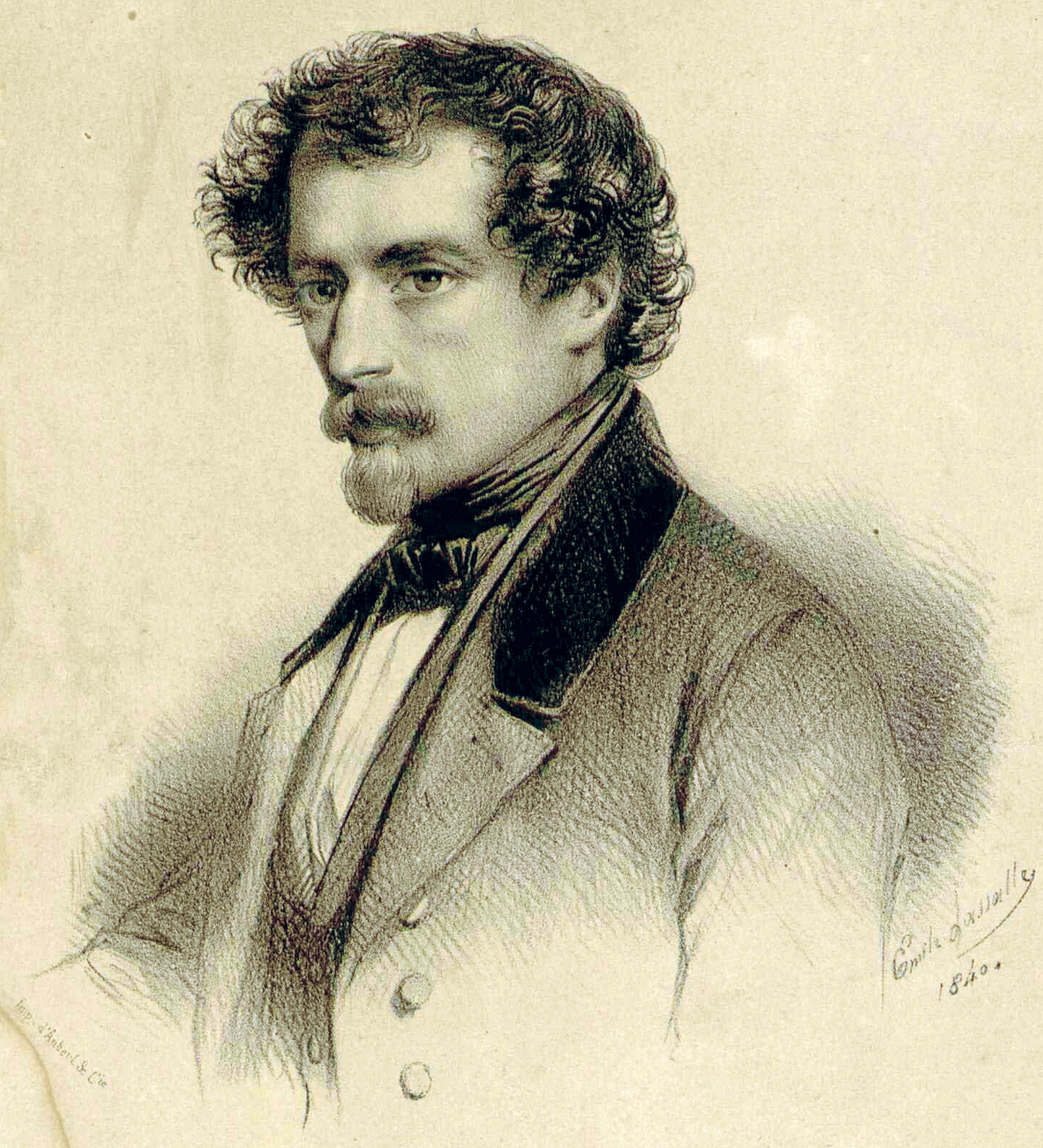 Engraving of Grandville (1803-1847), French draughstman